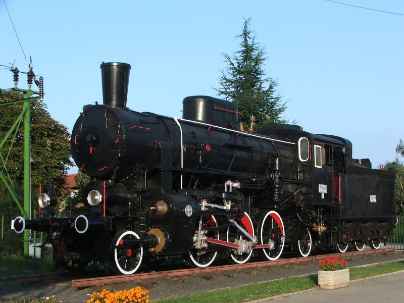 Gysev steam loco in Sopron